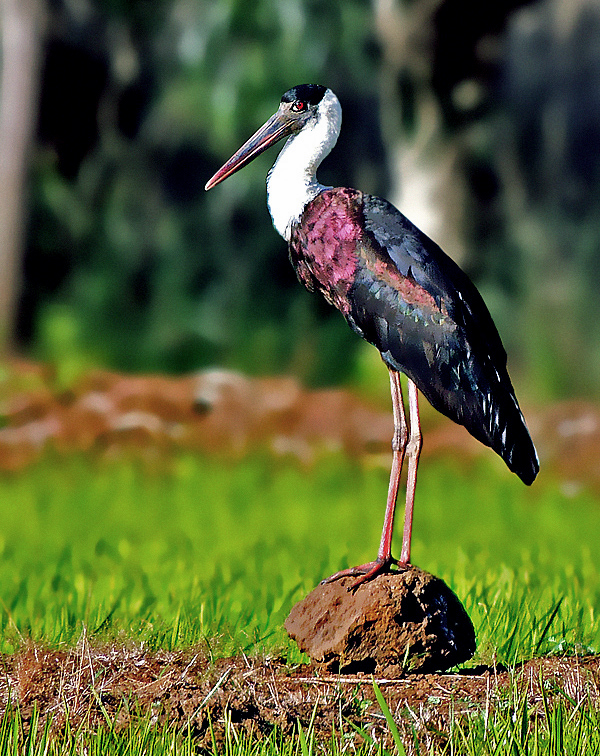 Woolly-necked Stork (Ciconia episcopus) In Breeding Plumage